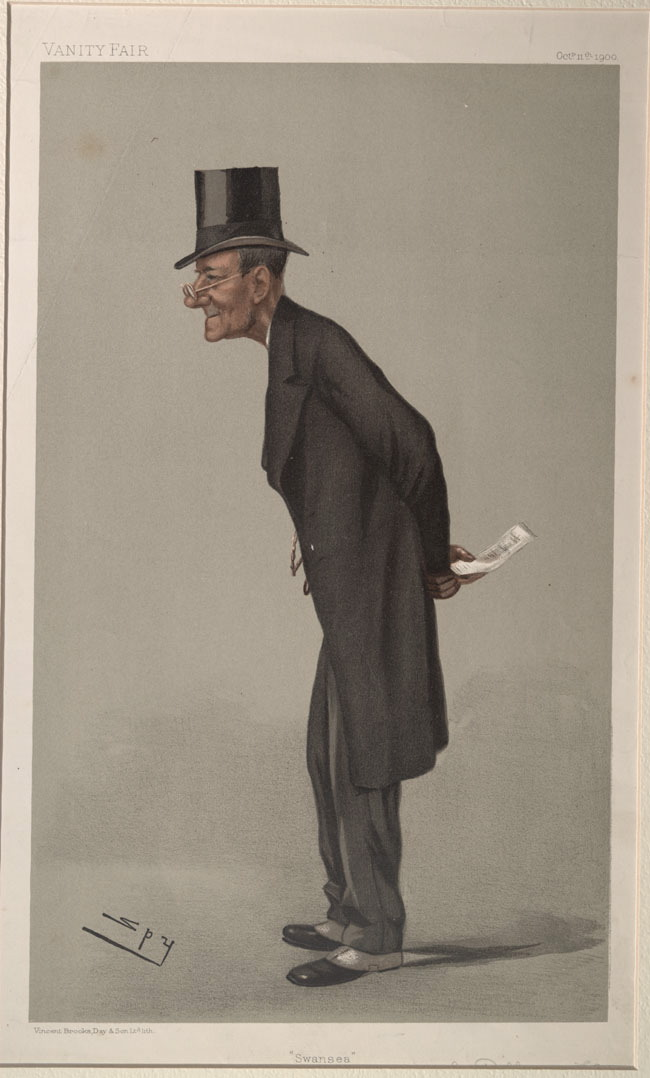 Men of the Day No. 794: Caricature of Sir J Talbot-Dillwyn-Llewellyn Bt. Caption read "Swansea".